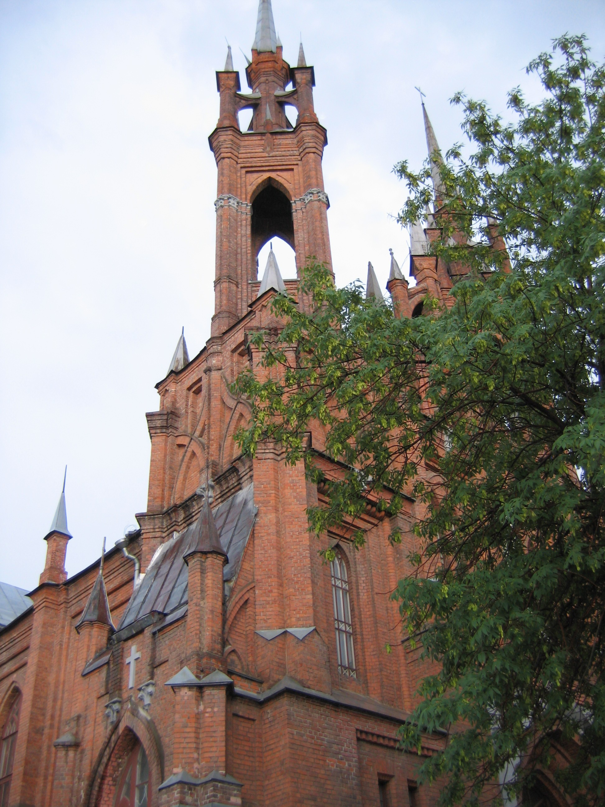 Catholic church of Sacred Heart in Samara, Russia